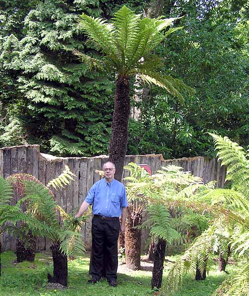 Tree Ferns at Combe Martin Wildlife and Dinosaur Park, North Devon, England. The person (myself) is 6 feet high. Taken by Adrian Pingstone in July 2004 and released to the public domain. Tree fern